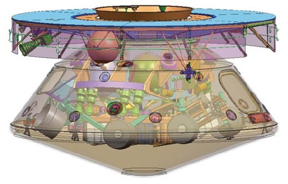 Flight-ready MSL configuration